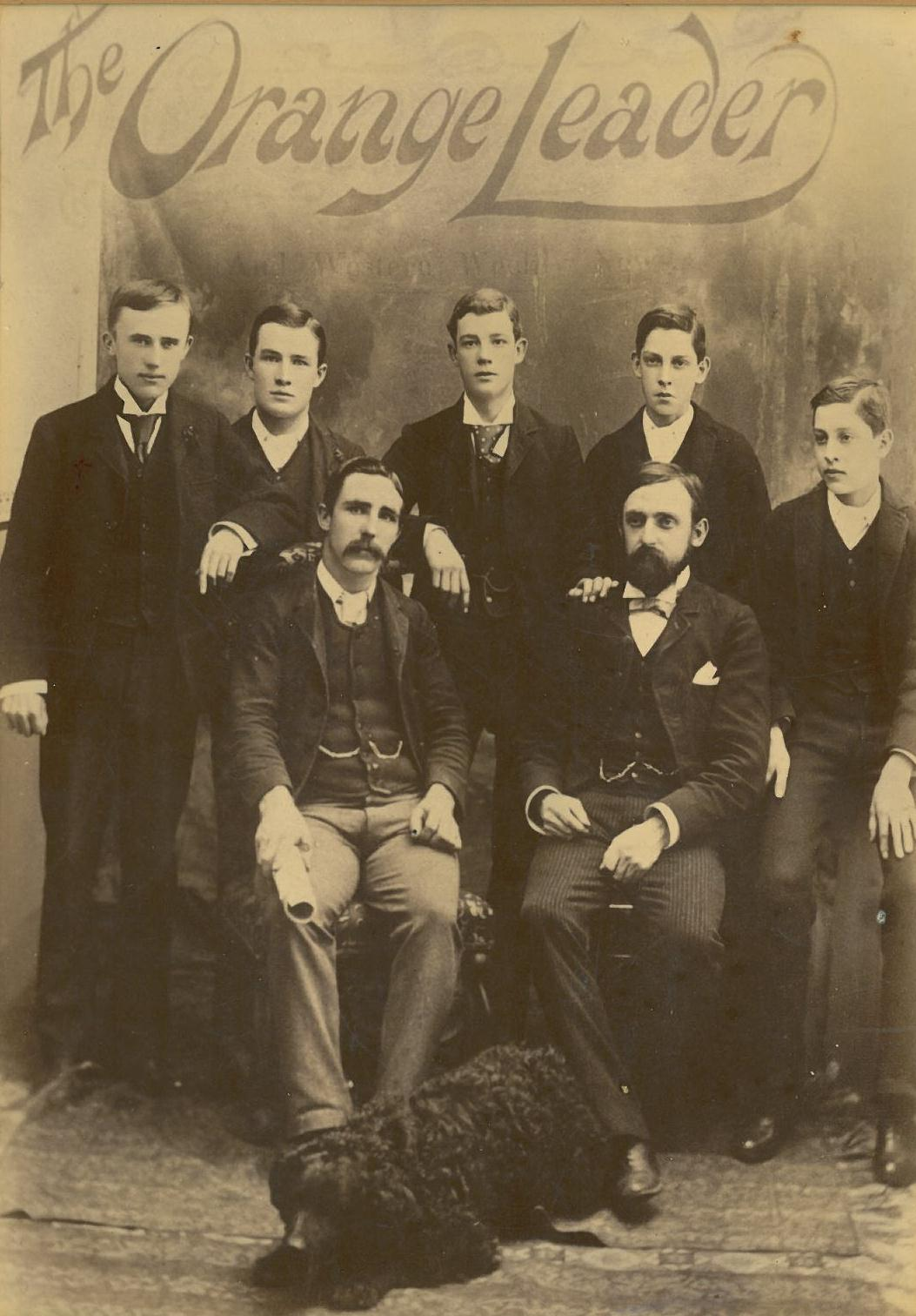 Staff portrait from the Orange Leader C1900. Main Title: Portrait of George Willcox, six other men and a dog [photograph] Imprint: Summer Street, Orange : W. Edward Southwell Collation: 1 photograph : sepia ; 21 x 14 cm. Notes: The man on the far left is Perth lawyer George Willcox, who possibly went on to become a magistrate in the Supreme Court of Western Australia in the 1930s and 1940s. "The Orange Leader" appears in the background; this is possibly a staff portrait.